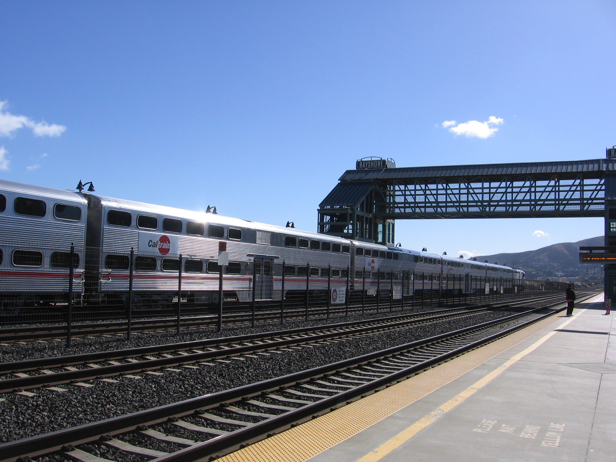 The Bayshore (Caltrain station) in San Francisco and Brisbane, California, USA, with a northbound train at the eastern platform seen from the western platform.